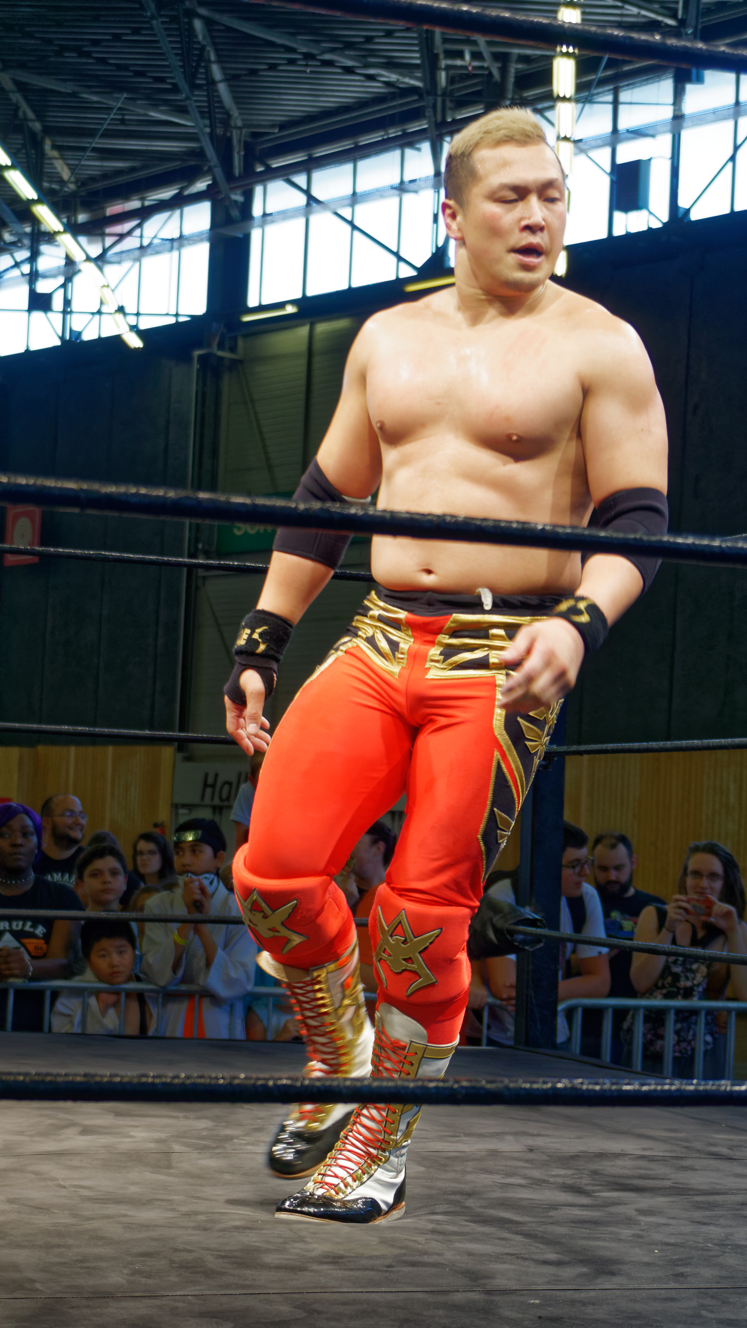 Kotaro Suzuki def. (pin) Senza Volto ( Japan Expo est LE rendez-vous des amoureux du Japon et de sa culture, du manga aux arts martiaux, du jeu video au folklore nippon, de la J-music a la musique traditionnelle : un evenement incontournable pour tous ceux qui s'interessent a la culture japonaise et une infinite de decouvertes pour les curieux. Le tout a 30 minutes de Paris ! )